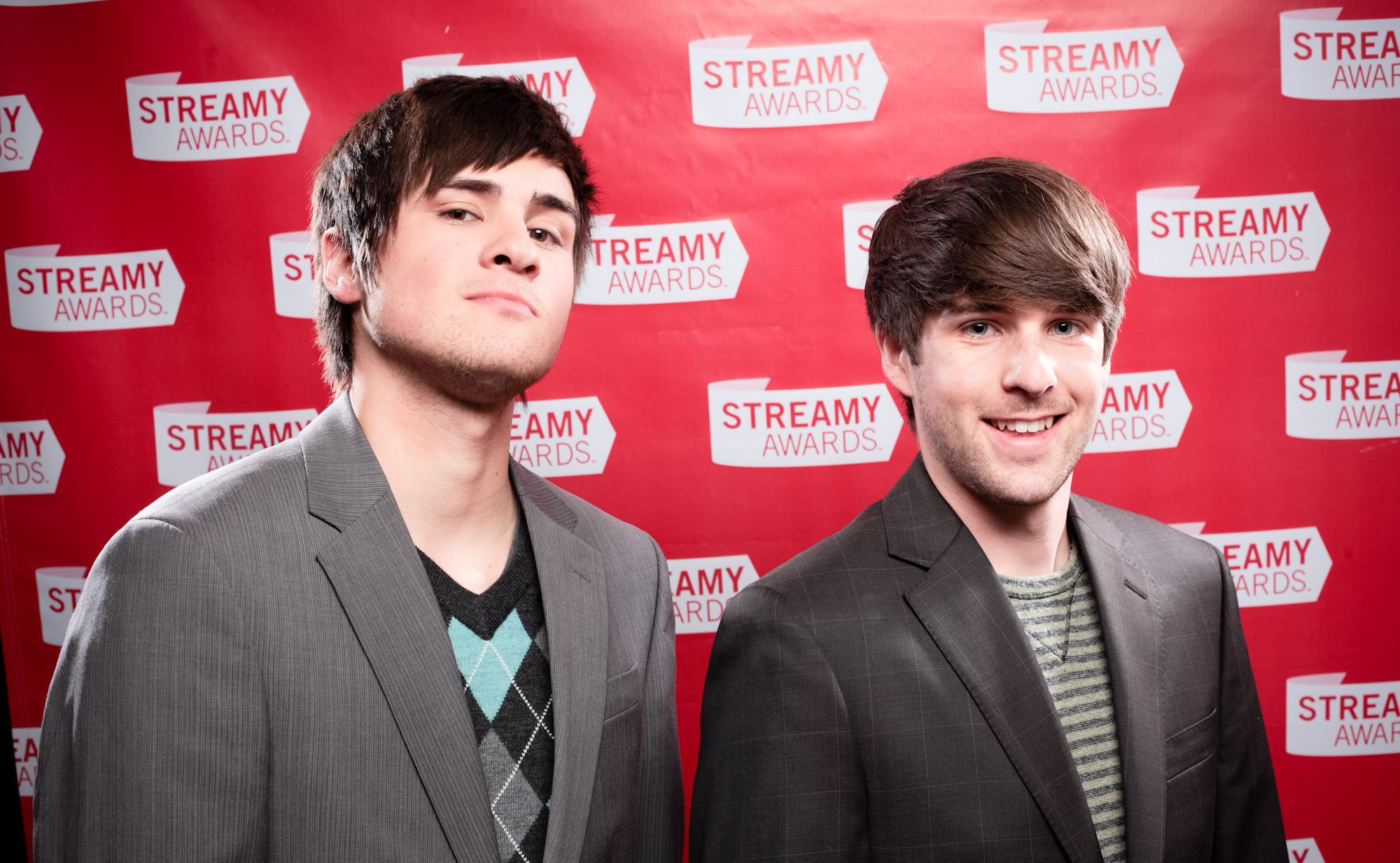 Thanks for viewing the official Streamy Awards photos! The exclusive photos of the winners and presenters are here. You don't want to miss those! We could not have done this without our awesome team of associate photographers: Bonny Pierzina Gabriel Ryan Laura Kearse Joe Philipson Kevin Calumpit Luis Miguel Munoz-Najar Actually, without our production team we could not have done this either: Josh Allard Megan Chrisofferson Mark Bealo Scott Kearse Thanks so much everyone for your hard work, and thanks so much Streamy Awards for using us again for the official photography! Please feel free to use these photos under a Creative Commons Attribution license (which means you may use the photos as long as you attribute the photos to and provide a link back to ) You can learn more about the Sreamy Awards by visiting Also, you can learn more about these photos by visiting our website with our favorite Streamy Awards photos.